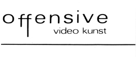 The logo of 'offensive video kunst'